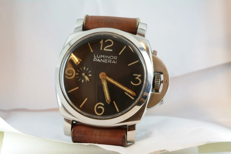 This work is free and may be used by anyone for any purpose. If you wish to use this content, you do not need to request permission as long as you follow any licensing requirements mentioned on this page.